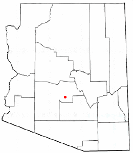 Locator map of Tempe — in Maricopa County, Arizona.